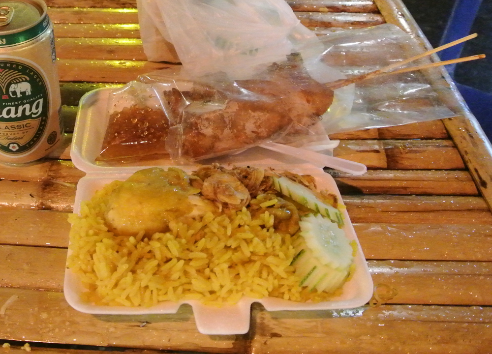 Southern Thai cuisine "Khao moc gai(chiken bury into rice)". with beer and sate. at Hat-Yai city.